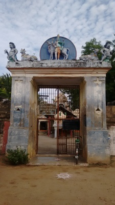 karukkudisargunalingesvarartemple கருக்குடி சற்குணலிங்கேஸ்வரர் கோயில்